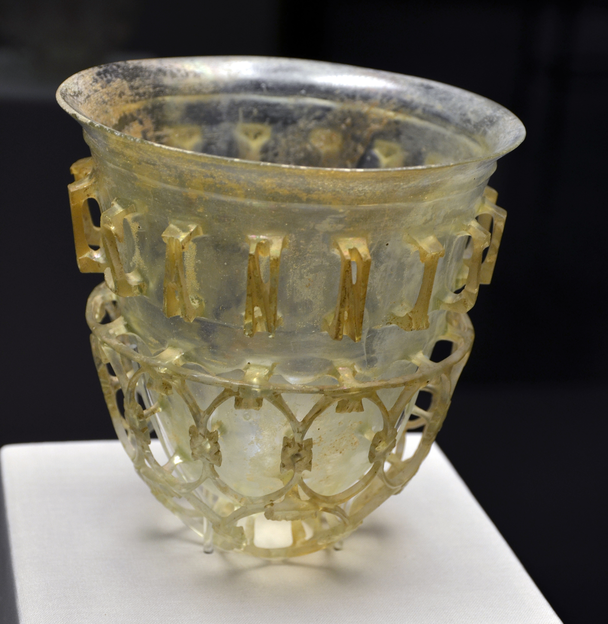 The Munich Cup, Late Roman glassware, second half of the 4th Century AC, found in Cologne. Now in the Staatliche Antikensammlung, in Munich. It's a diatretum, also called a cage cup or a reticulated cup.